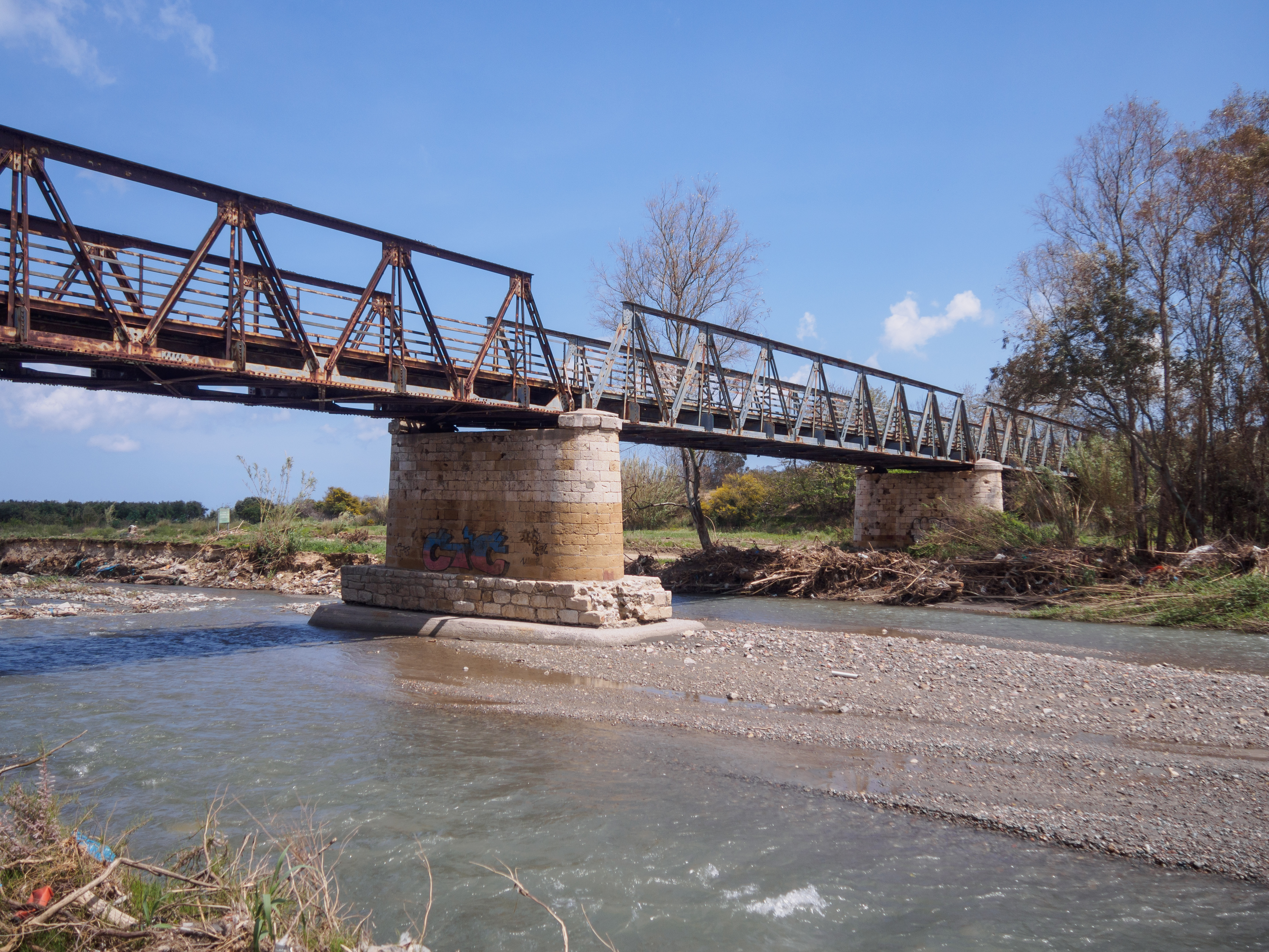 The old bridge over Tavronitis river, built in 1902. 150 metres long, it was the longest bridge in Crete at its completion.